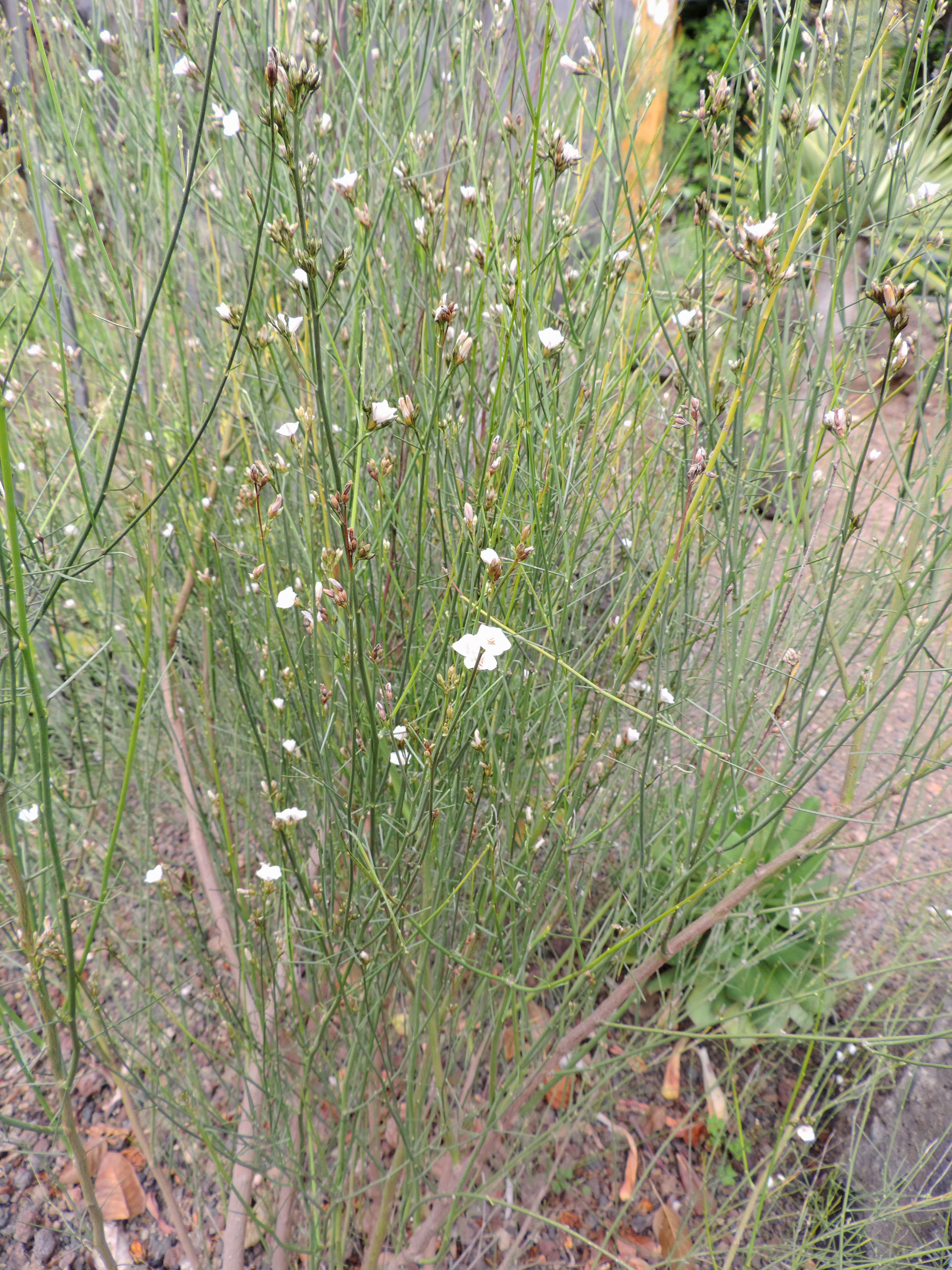 Convolvulus scoparius in Jardín Botánico Canario Viera y Clavijo